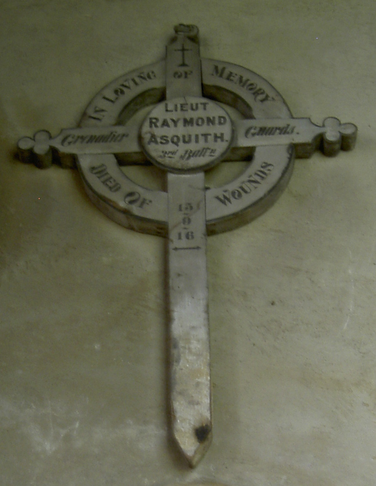 Original grave marker for Raymond Asquith, in St Andrew's Church, Mells, Somerset, England.